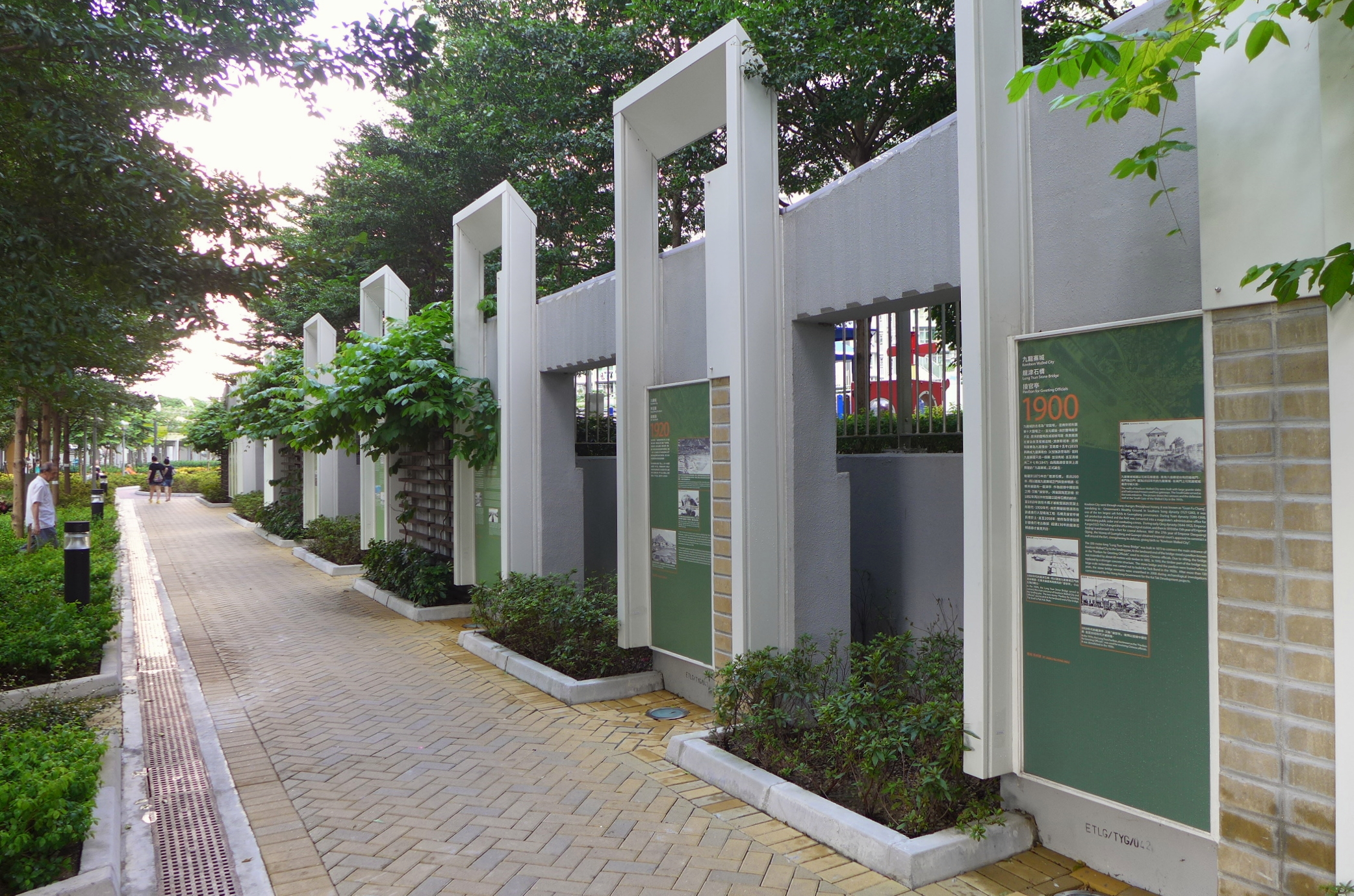 Tak Long Estate Historical Gallery